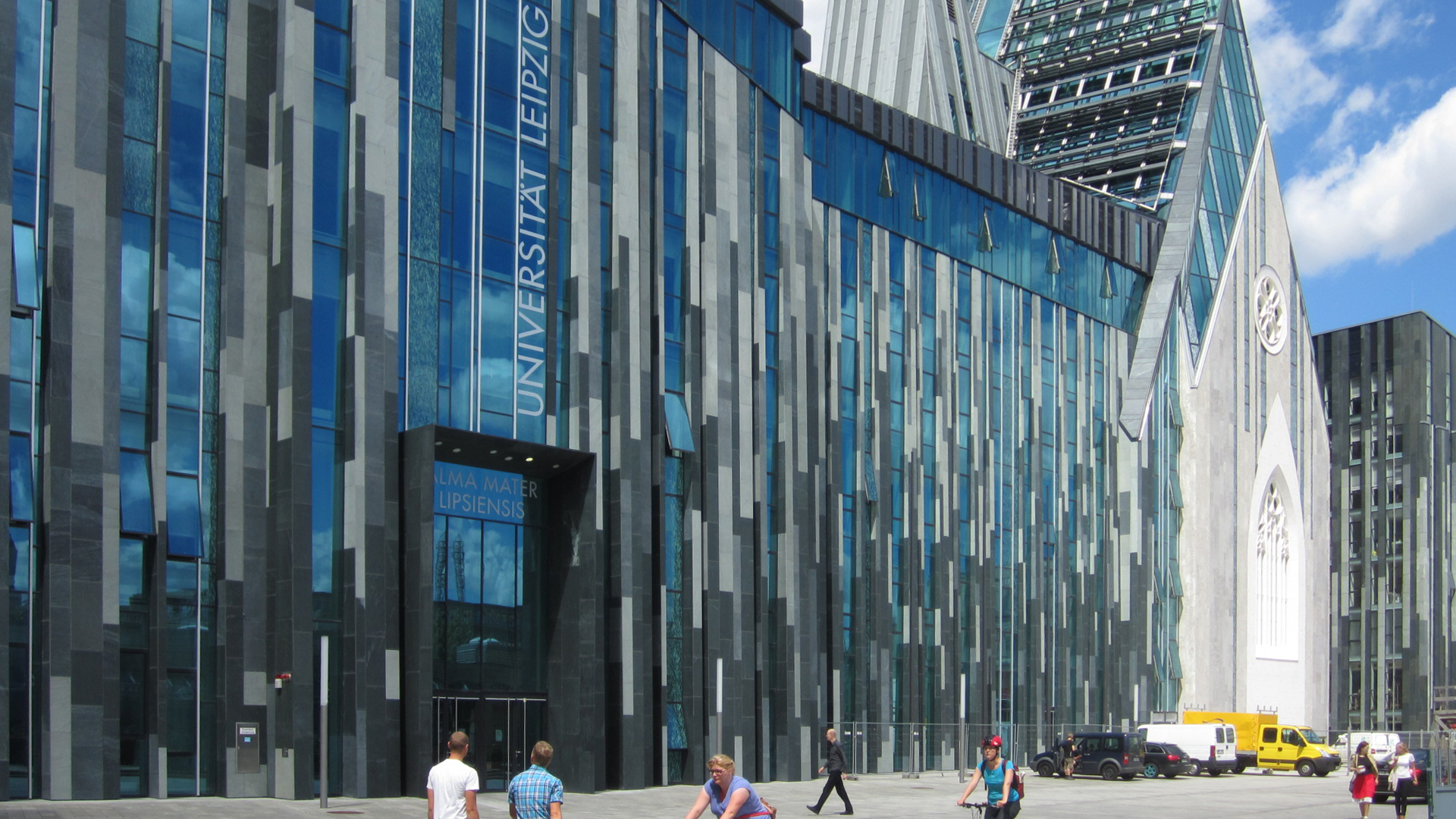 The New Augusteum, main building of Leipzig University with main entrence (Alma mater lipsiensis), during construction (July 2012). The Paulinum – Aula und Universitätskirche St. Pauli (Auditorium and University Church St. Pauli) can be seen in the background.